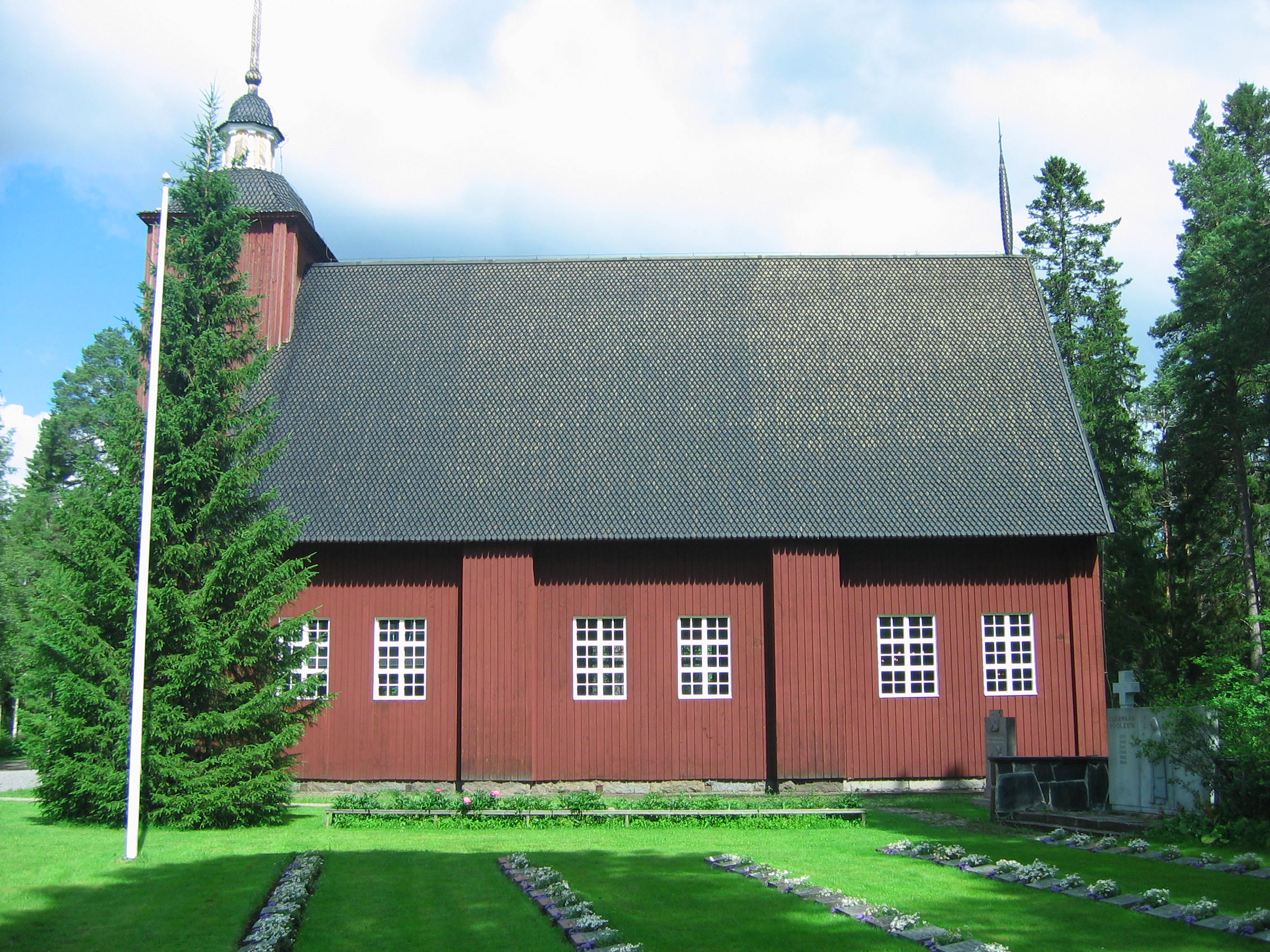 The wooden church of Utajärvi, Finland